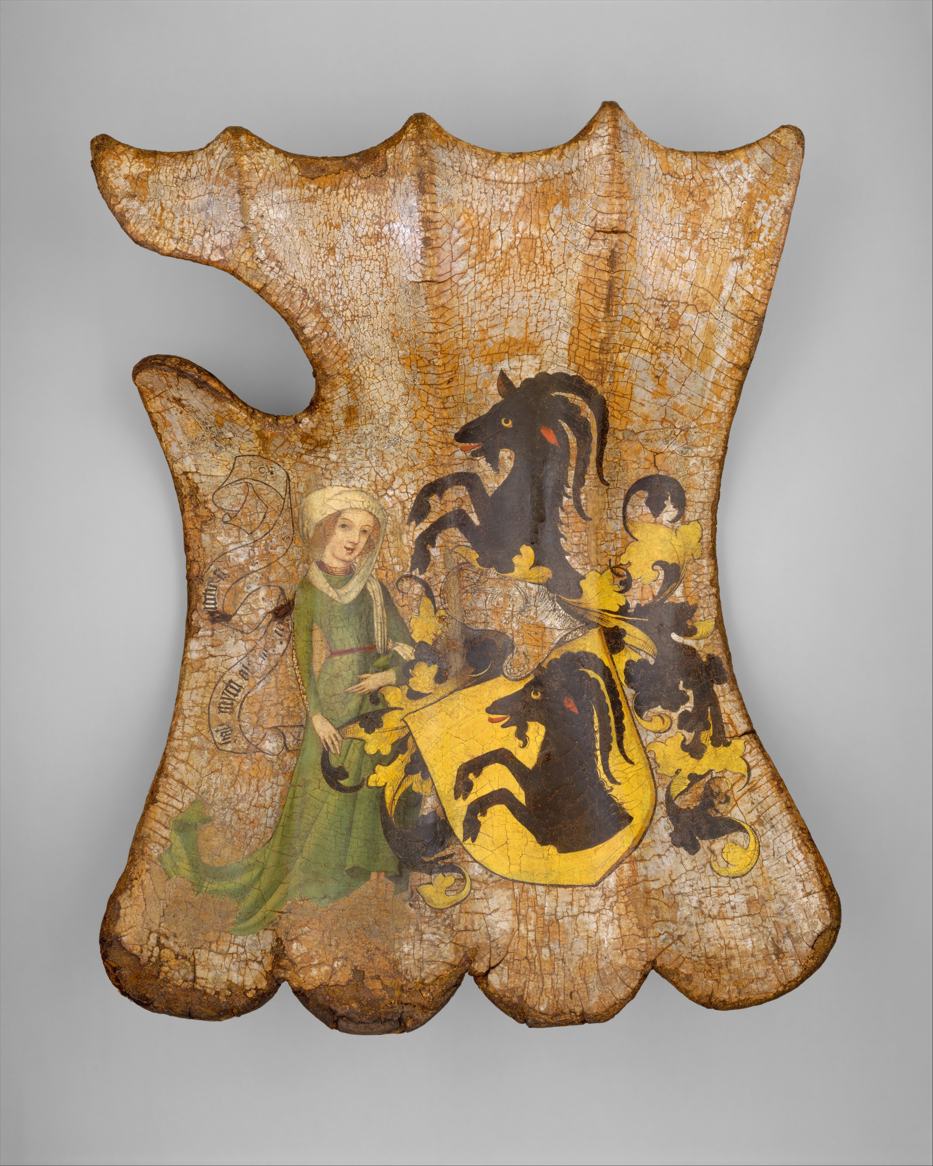 Shield for the field or tournament (Targe); German; Shields